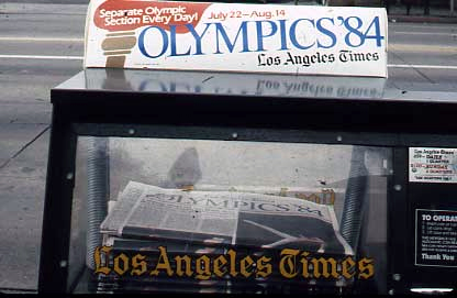 Photograph by George Garrigues in summer 1984 of a Los Angeles Times vending machine featuring advertising for the then-current Olympics games.